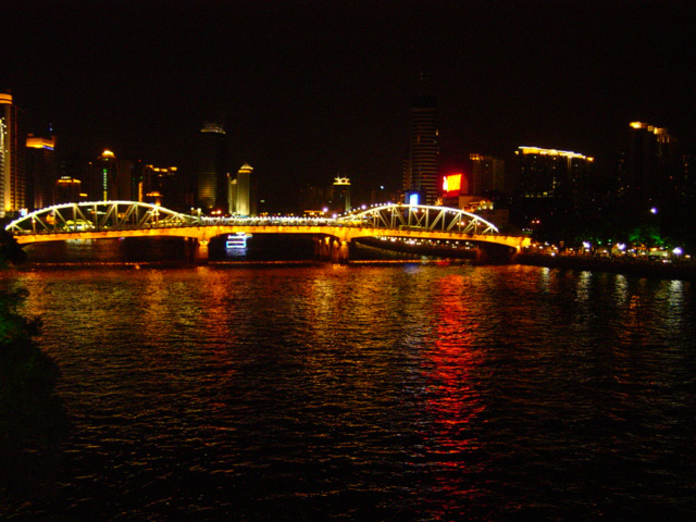 peral river in guangzhou